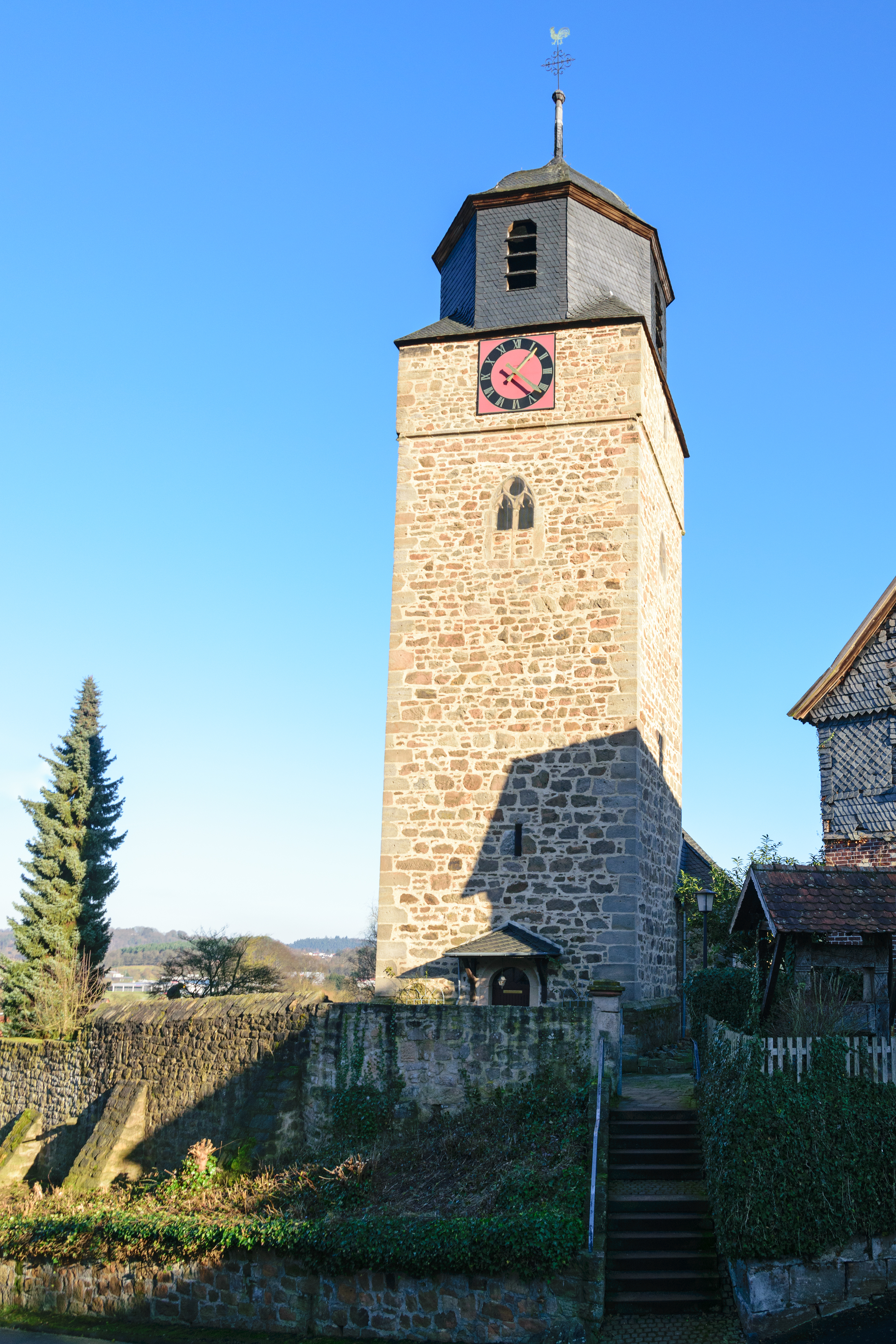 Tower of evangelic St. Martin's Church in Wehrda